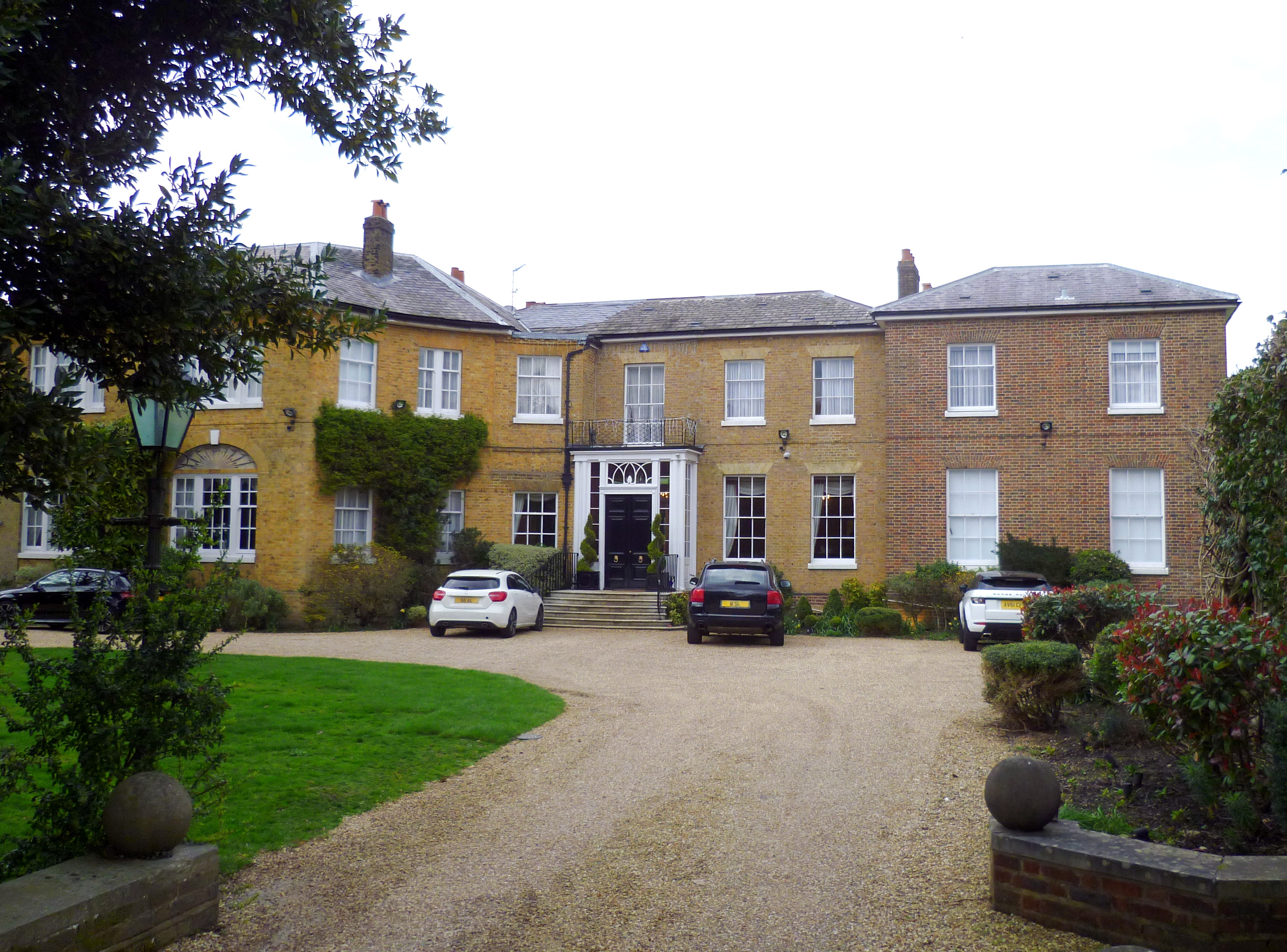 Hadley